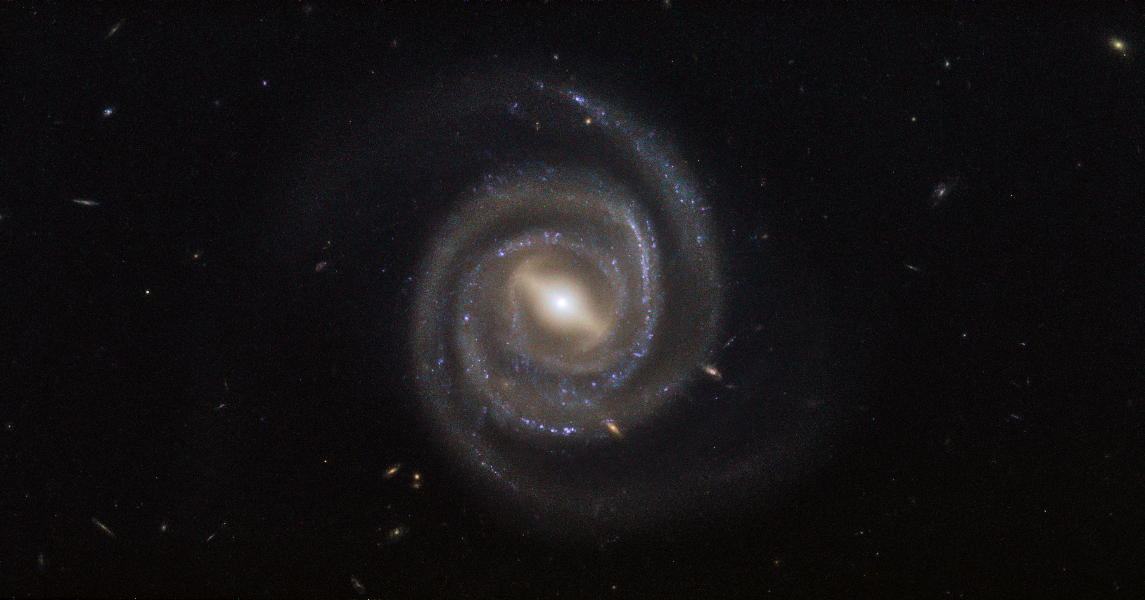 This image, captured by the NASA/ESA Hubble Space Telescope’s Wide Field Camera 3 (WFC3), shows a galaxy named UGC 6093. As can be easily seen, UGC 6093 is something known as a barred spiral galaxy — it has beautiful arms that swirl outwards from a bar slicing through the galaxy’s centre. It is classified as an active galaxy, which means that it hosts an active galactic nucleus, or AGN: a compact region at a galaxy’s centre within which material is dragged towards a supermassive black hole. As this black hole devours the surrounding matter it emits intense radiation, causing it to shine brightly. But UGC 6093 is more exotic still. The galaxy essentially acts as a giant astronomical laser that spews out light at microwave, not visible, wavelengths — this type of object is dubbed a megamaser (maser being the term for a microwave laser). Megamasers such as UGC 6093 can be some 100 million times brighter than masers found in galaxies like the Milky Way. Hubble’s WFC3 observes light spanning a range wavelengths — from the near-infrared, through the visible range, to the near-ultraviolet. It has two channels that detect and process different light, allowing astronomers to study a remarkable range of astrophysical phenomena; for example, the UV-visible channel can study galaxies undergoing massive star formation, while the near-infrared channel can study redshifted light from galaxies in the distant Universe. Such multi-band imaging makes Hubble invaluable in studying megamaser galaxies, as it is able to untangle their intriguing complexity.